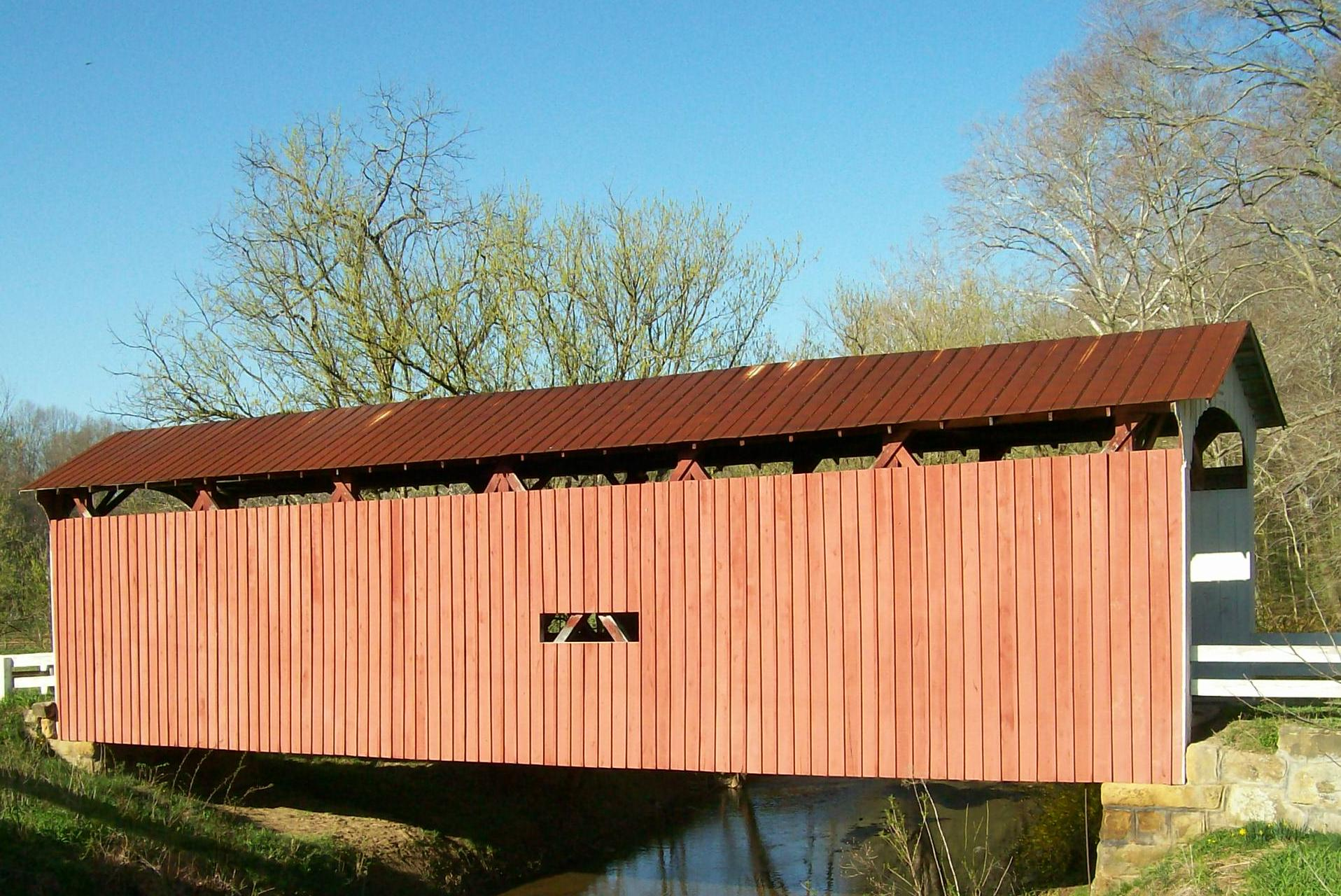 The Root Covered Bridge just north of Decaturville, Ohio in Washington County. The bridge is photographed looking northeast from County Road 6. Listed on the NRHP for Washington County, Ohio. Taken 04-10-2010.